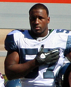 David Hawthorne, a player on the Seattle Seahawks American football team.